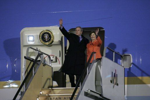 President George W. Bush and Laura Bush wave from Air Force One Tuesday, Nov. 15, 2005, after arriving at Osaka International Airport in Osaka, Japan.